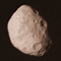 This is a colorized version of the high-resolution Voyager 2 spacecraft image of Janus that was taken on 25 August 1981. Janus was discovered by Audouin Dollfus in 1966 and was named after the god of gates and doorways. It is depicted with two faces looking in opposite directions. Janus has an irregular shape with a size of 196x192x150 kilometers (122x119x93 miles) in diameter. It is heavily cratered with several craters 30 kilometers (19 miles) in diameter. The pervasive cratering indicates that its surface must be several billion years old. Janus and Epimetheus share the same orbit of 151,472 kilometers (94,125 miles) from Saturn's center or 91,000 kilometers (56,547 miles) above the cloud tops. They are only separated by about 50 kilometers (31 miles). As these two satellites approach each other they exchange a little momentum and trade orbits; the inner satellite becomes the outer and the outer moves to the inner position. This exchange happens about once every four years. Janus and Epimetheus may have formed from a disruption of a single parent to form co-orbital satellites. If this is the case, the disruption must have happened early in the history of the satellite system.